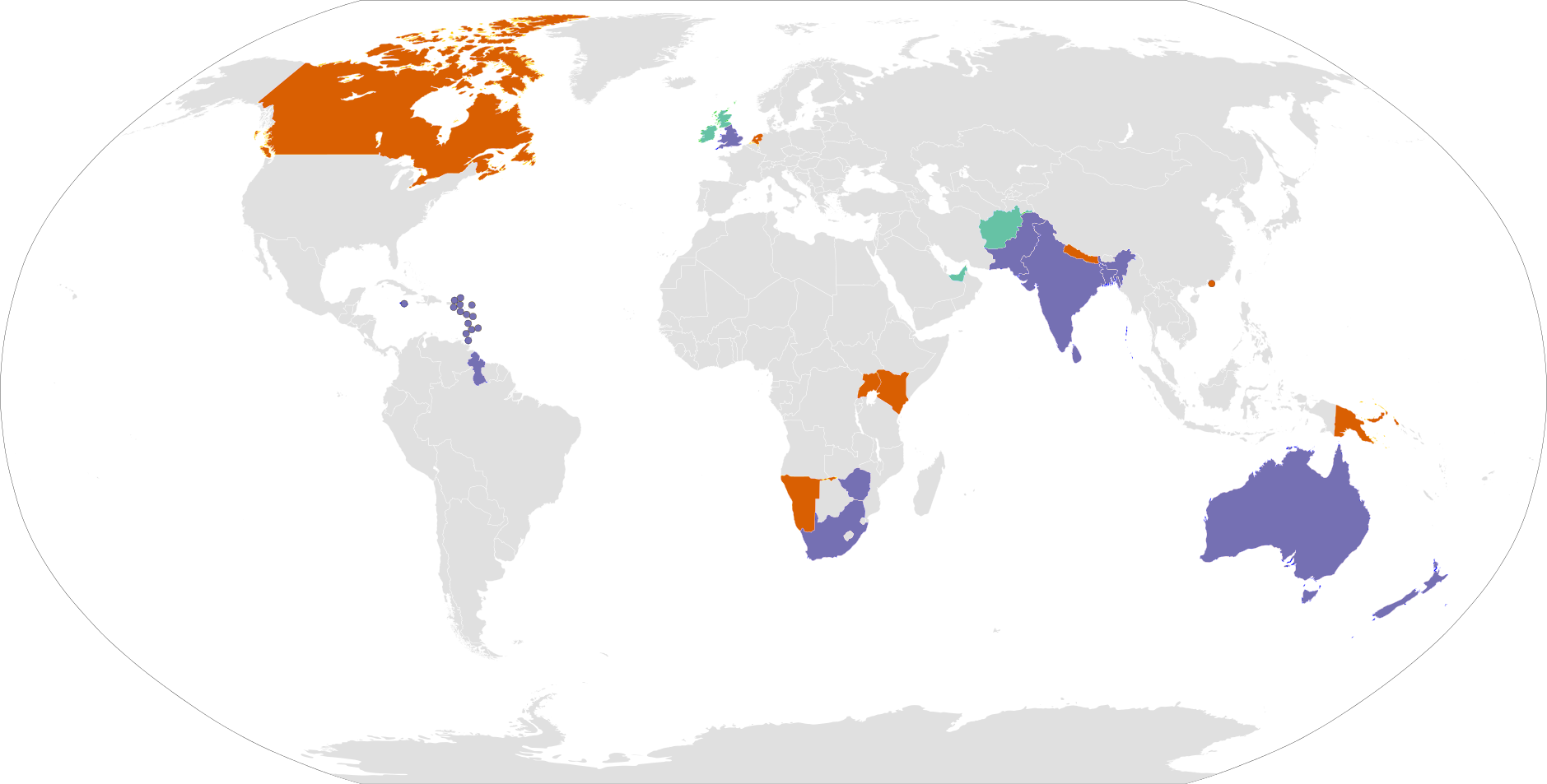 2015 Cricket World Cup. Qualified as full member of ICC Qualified via WCL and qualifier Participate in qualifier but failed to qualify